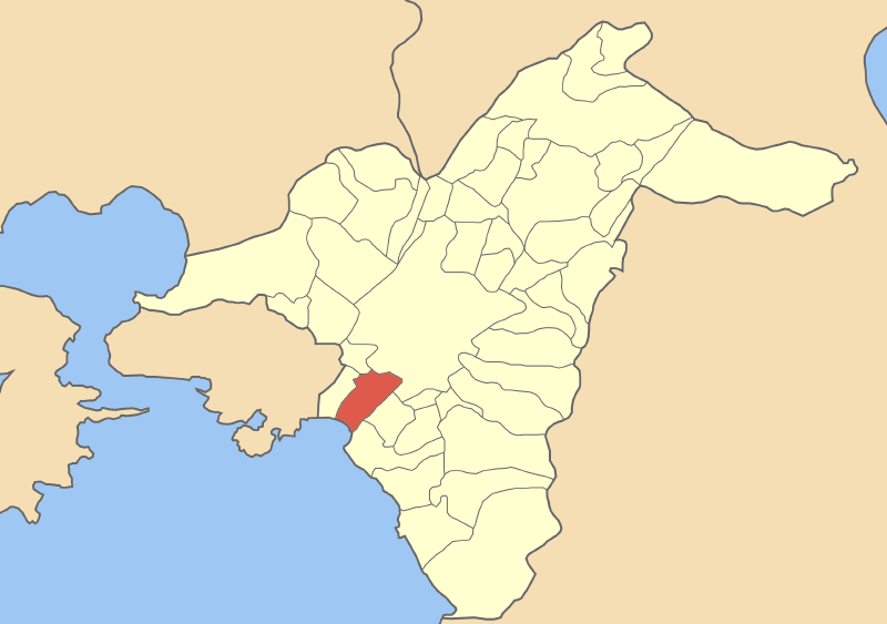 Locator map of Kallithea municipality (Δήμος Καλλιθέας) in Athina Nomarchia (Νομαρχία Αθηνών) in Greece.